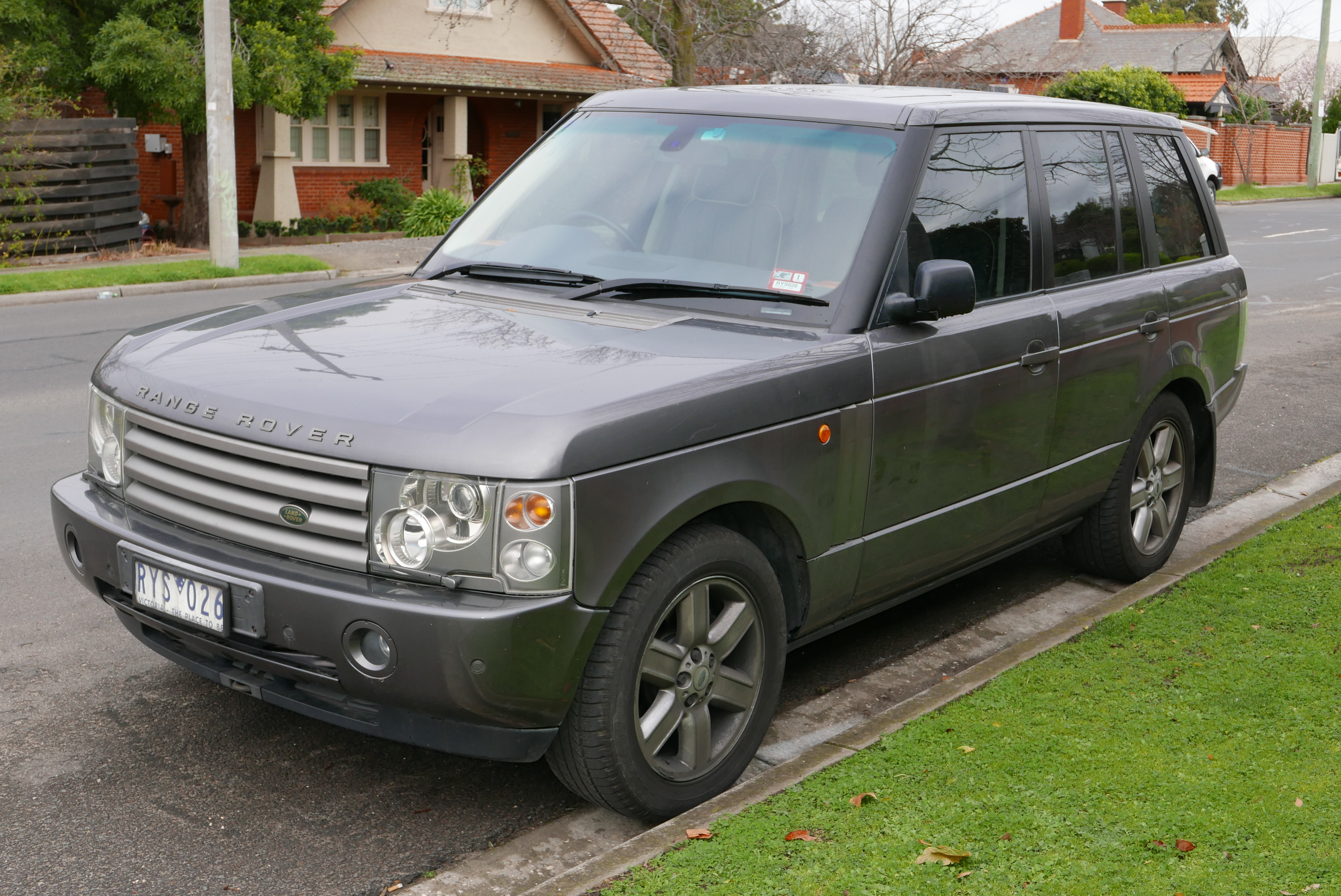 2002 Land Rover Range Rover (L322 MY03) Vogue wagon. Photographed in Ivanhoe, Victoria, Australia. Vehicle registration enquiry results Jurisdiction Victoria Registration RYS026 Chassis code SALLMAMA33A118578 Engine code 5233281644852 Compliance date 2002-12 Year of manufacture 2002